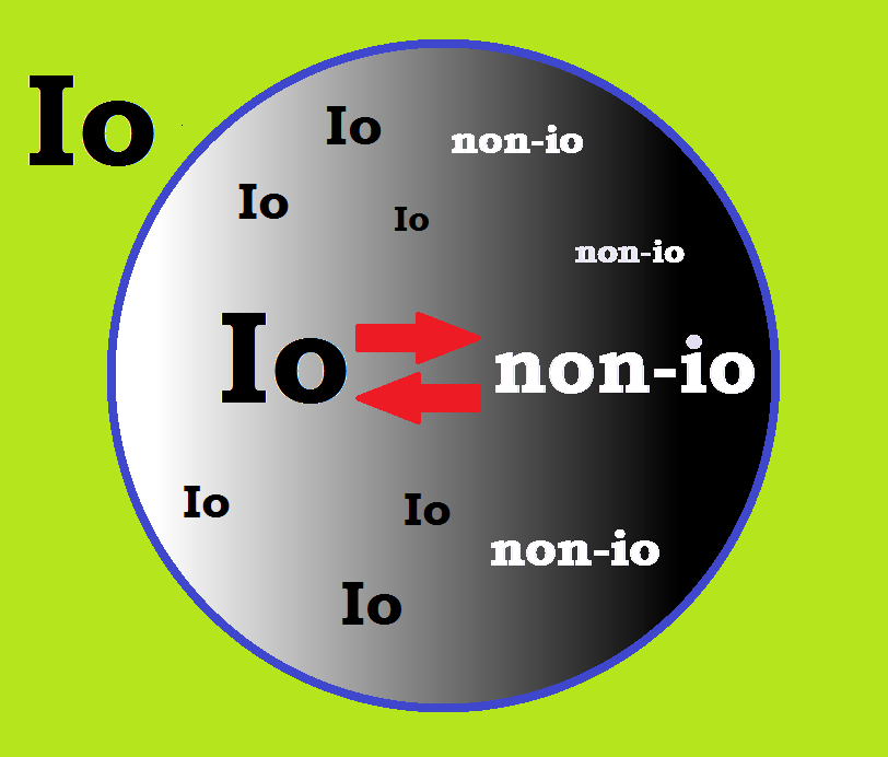 Diagram of the third principle in the Fichte's doctrine